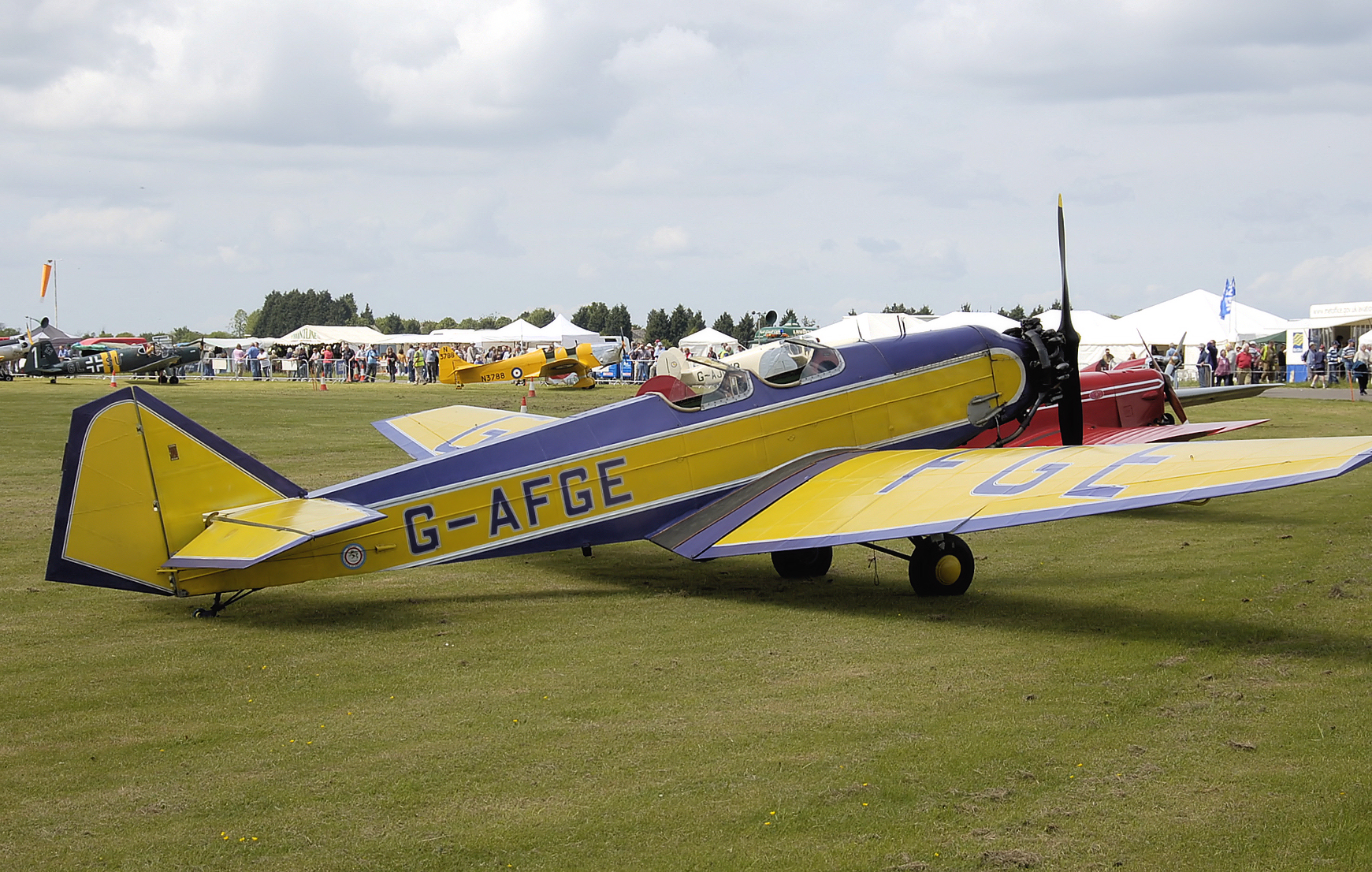 British Aircraft Swallow II (that's a two, not an eleven) light aircraft (G-AFGE), at the Great Vintage Flying Weekend rally at Hullavington, Wiltshire, England. This aircraft was built in 1937.